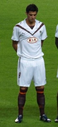 Yoann Gourcuff